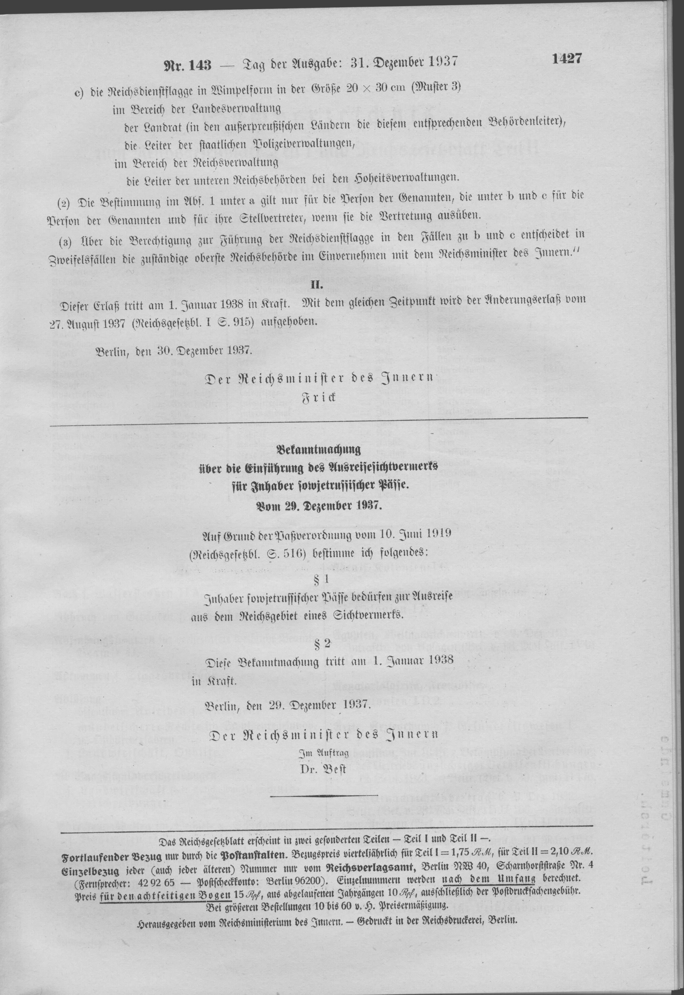 Scan from the Imperial Law Gazette of Germany, 1937, part 1